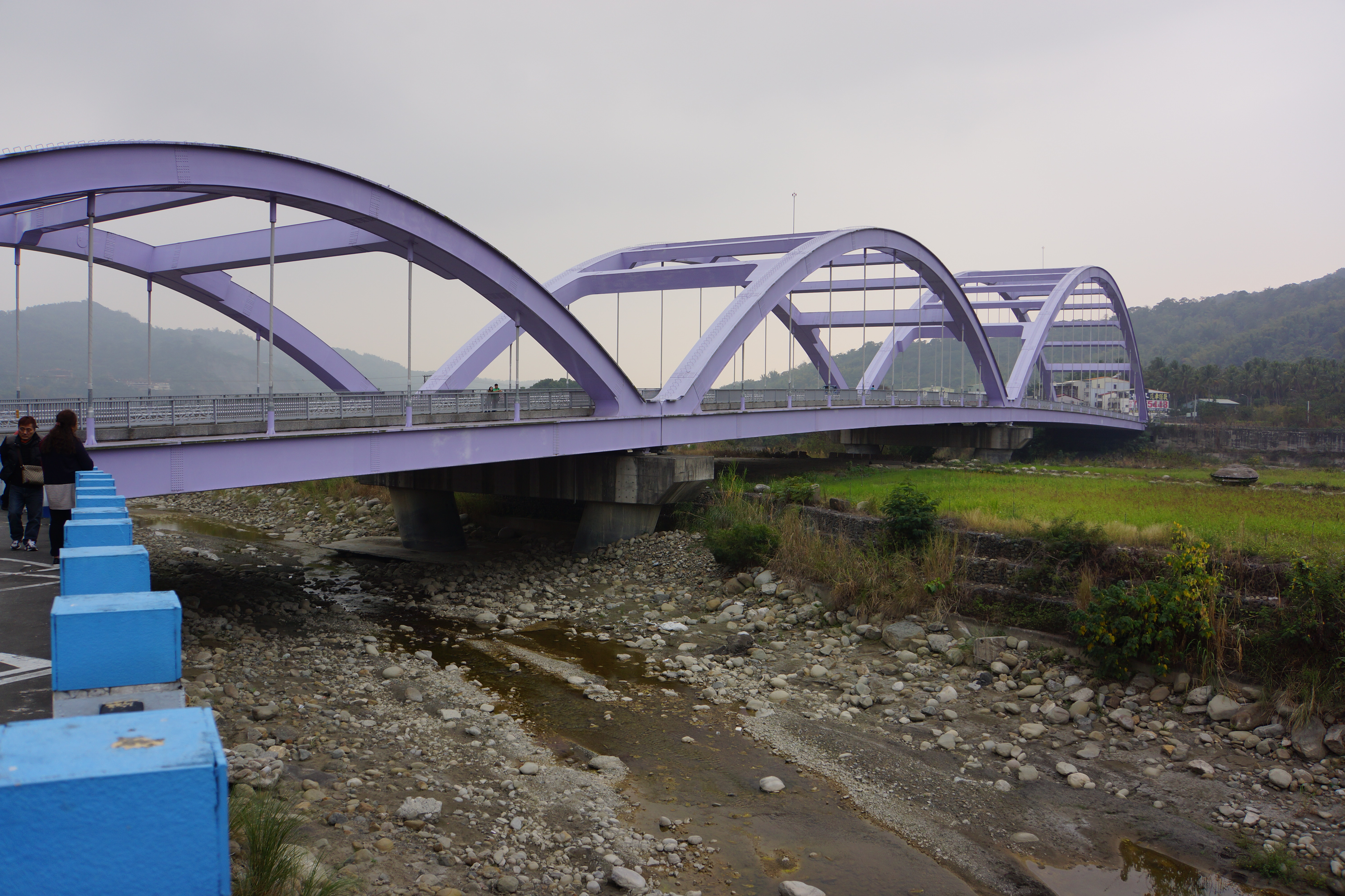 甲仙大橋 Jiaxian Bridge